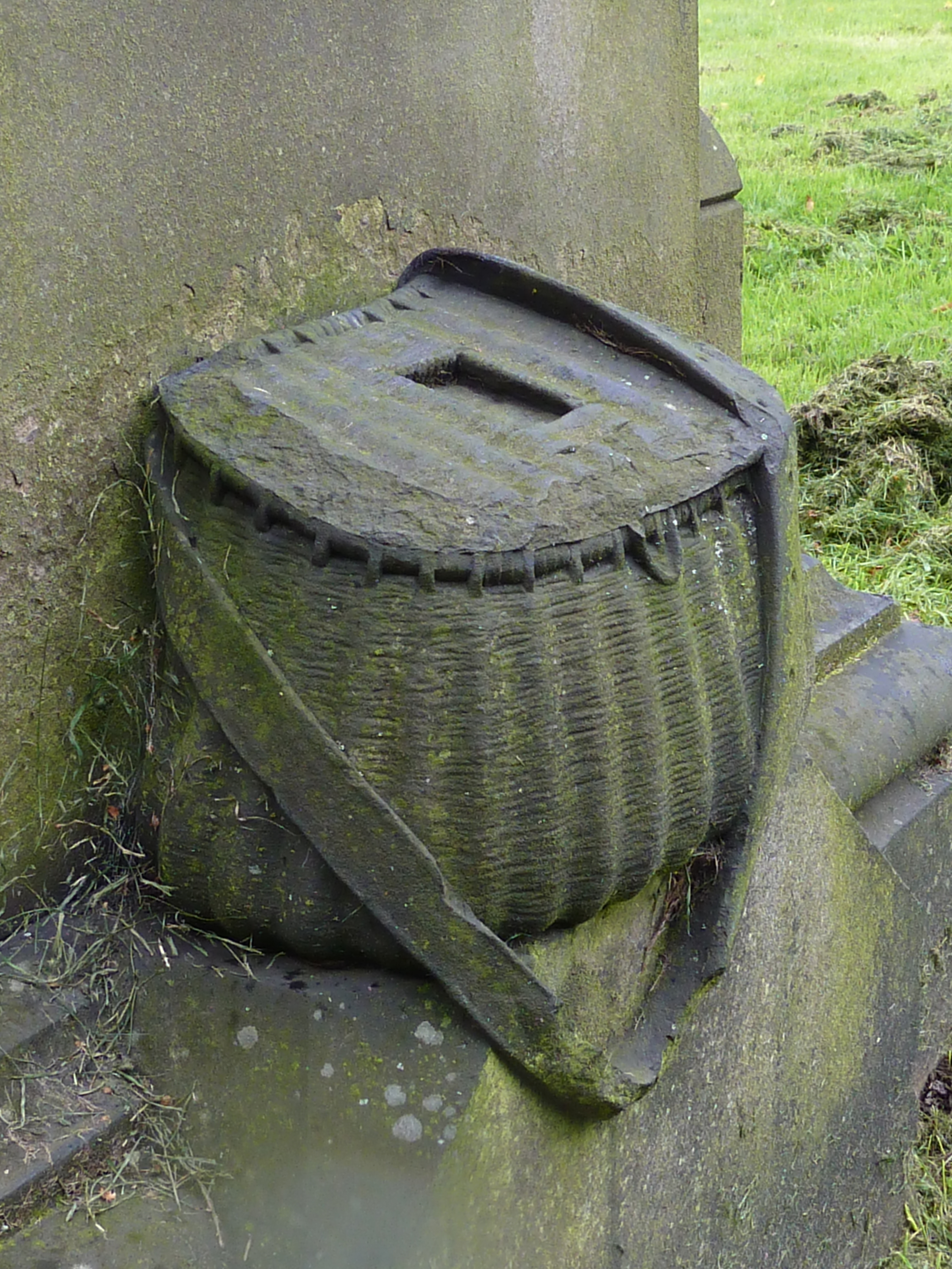 Showing the Angler's Tomb, or the gravestone of William Taylor (1793-1873), carved by his son Matthew Taylor. William was buried on the right hand side of the chapel in Woodhouse Cemetery, Leeds, West Yorkshire, but the gravestone has now been removed to the left hand side. The kingfisher once on top of the monument is missing. The gravestone was named "Angler's Tomb" by Rev. W.T. Adey in 1905, in response to the images carved upon it. Showing carving of life-sized fish basket, as if left by the fishermen on the plinth of the gravestone.